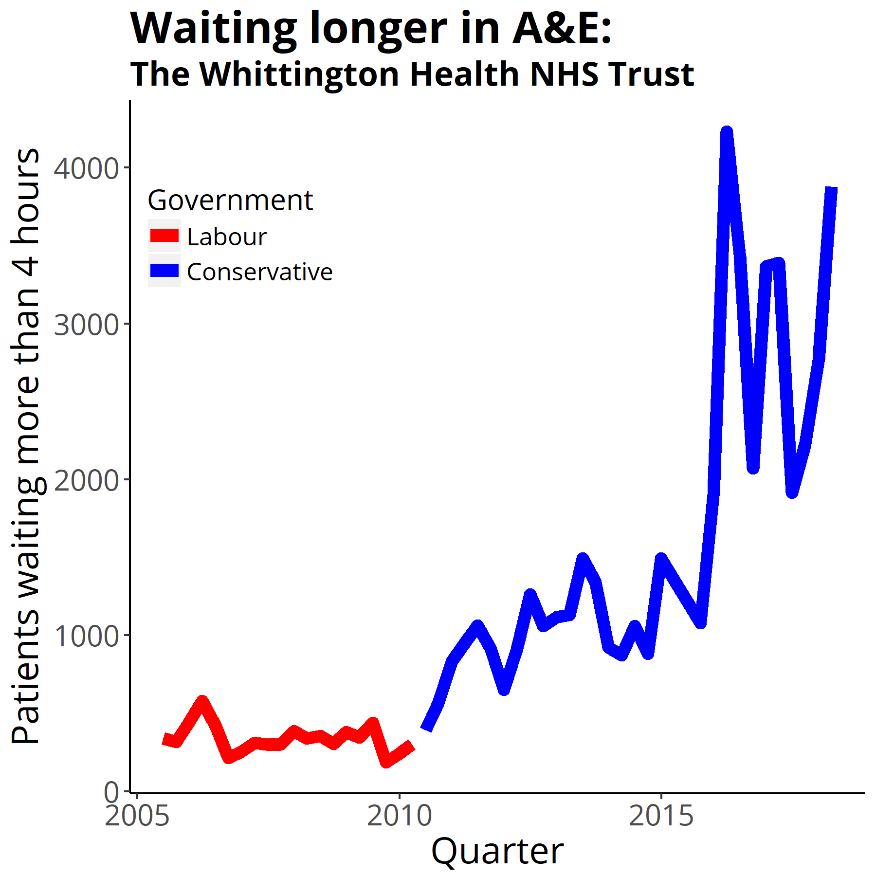 en|1=Four-hour target in the emergency department quarterly figures from NHS England[1]